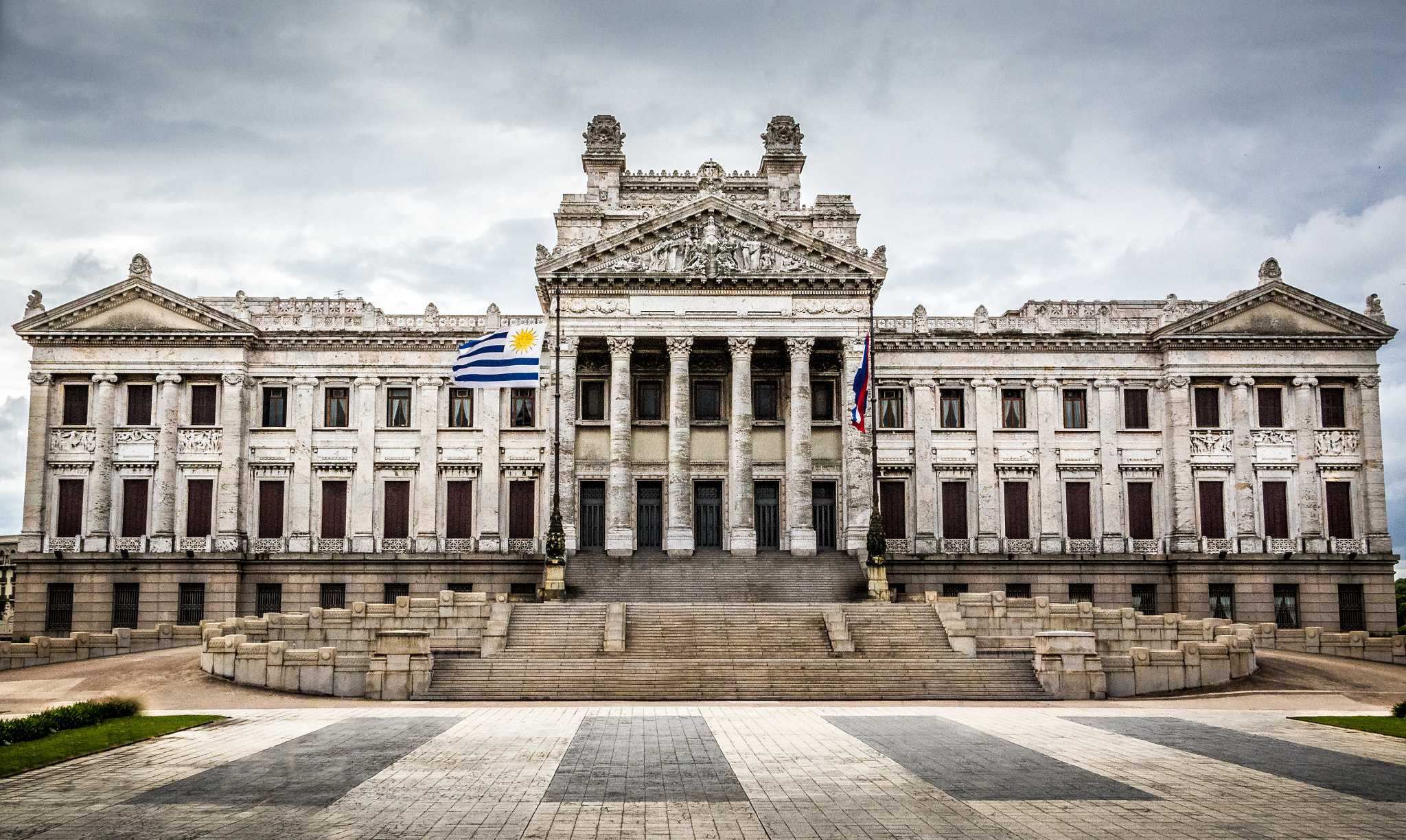 500px provided description: Foto tirada em mar?o de 2014. P?s-produ??o em Photoshop Lightroom 5. [#cloudy ,#cityscape ,#building ,#nikon ,#gray ,#photoshop ,#lightroom ,#uruguay ,#montevideo ,#D7100]